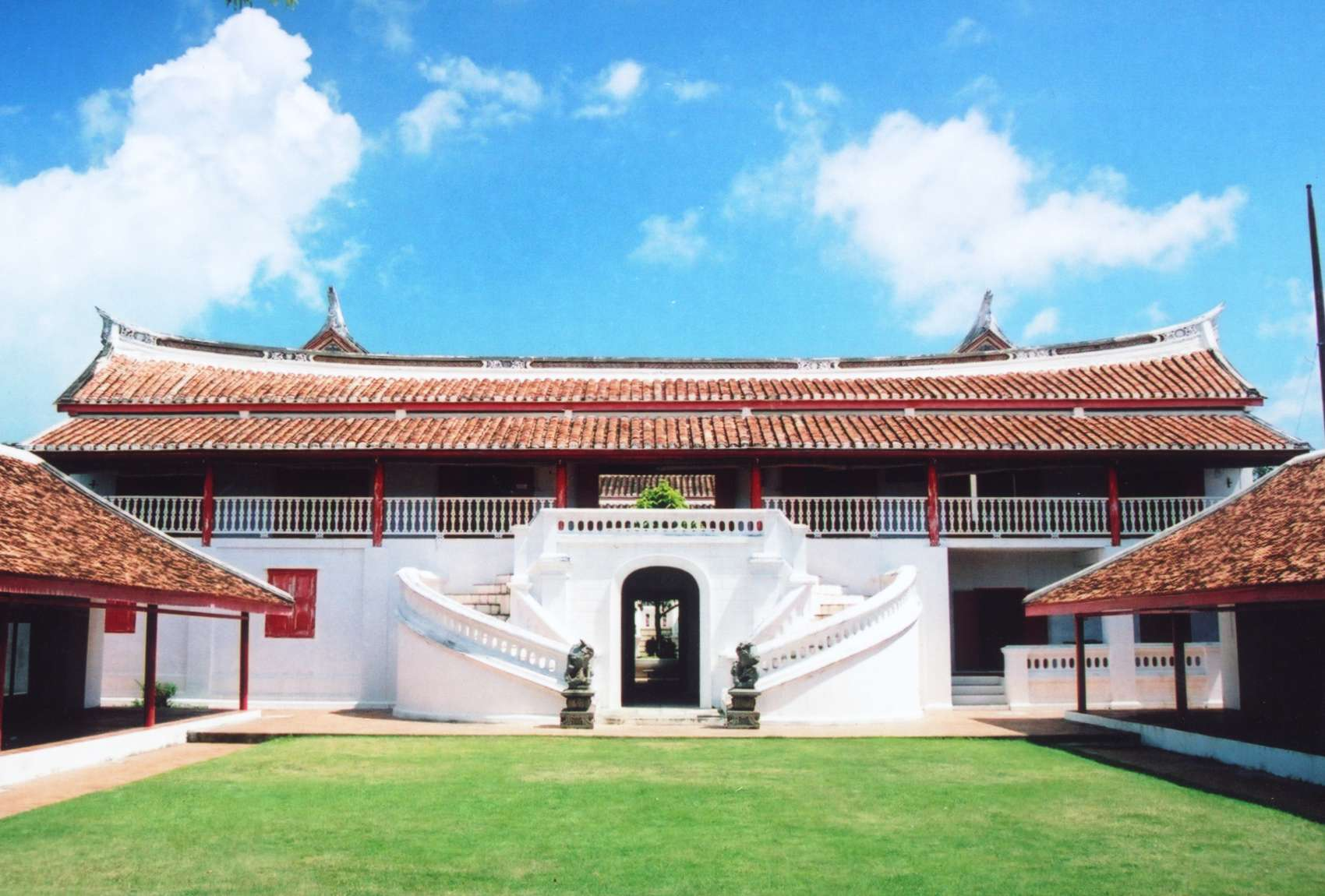 National museum of Songkhla, back side view. The building was build in 1878 by Net Na Songkhla, then the deputy governour of the province Songkhla. It served as a residence for the governour of Songkhla shortly, then was used as a city hall, but then fell into neglect. It was declared national monument in 1973, in 1982 the national museum inside was opened. Photo taken by User:Ahoerstemeier on January 23 2005.